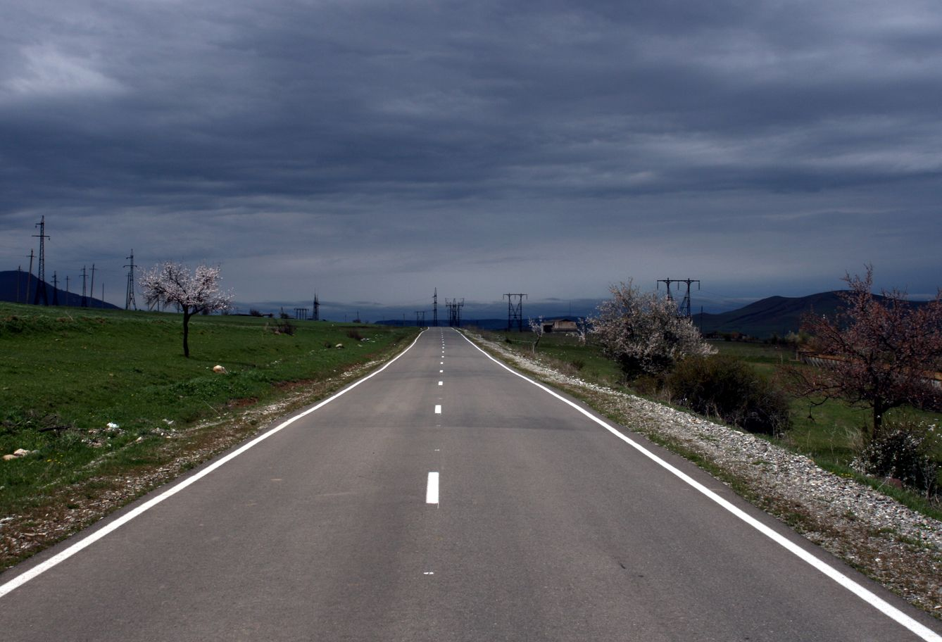 Gori highway between Khidistavi and Akhalkalaki